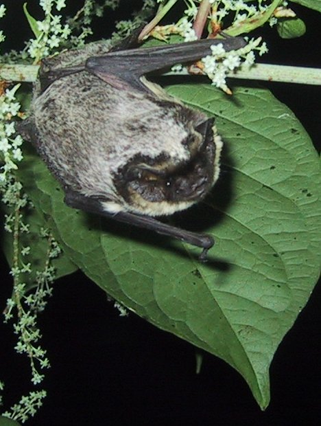 Male parti-coloured bat Vespertilio murinus resting.